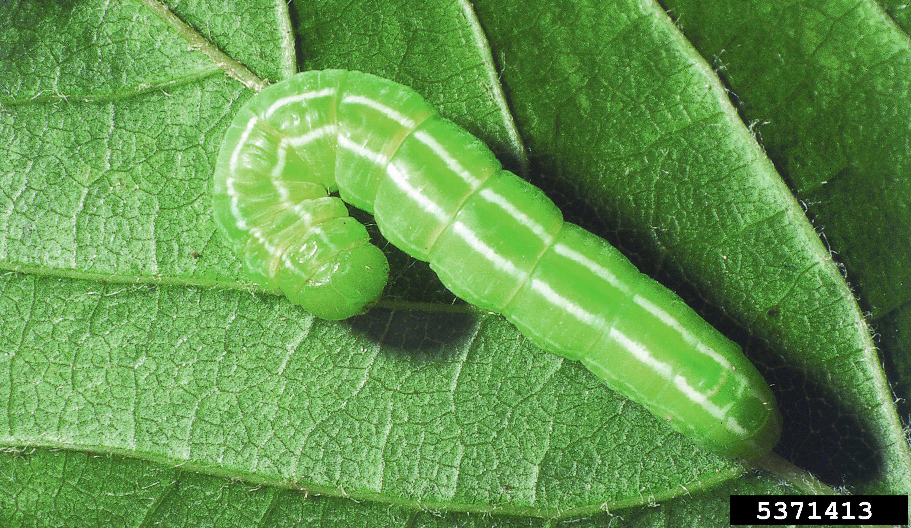 Caterpillar of Ptiliphora plumigera. Picture taken in Hungary.